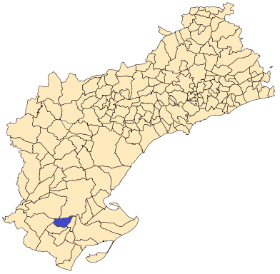 Santa Bárbara